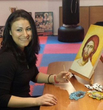 icon painting